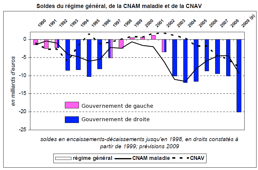 Deficit of the French social security with regard to the government flavour